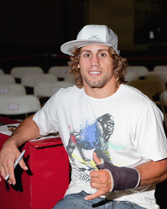 Taken at Fight Night Round IV: Independence Day - July 24th, 2009 in Bellingham, Wa. Thank you to Northwest Fight Scene Magazine for the opportunity to shoot this fight. More photos from this fight available at Martial Arts/843543 ClusterClick Photos